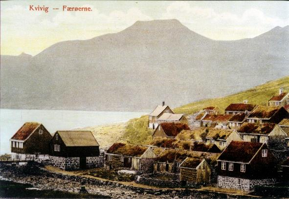 Postcard of Kvívík, Faroe Islands of 1900.